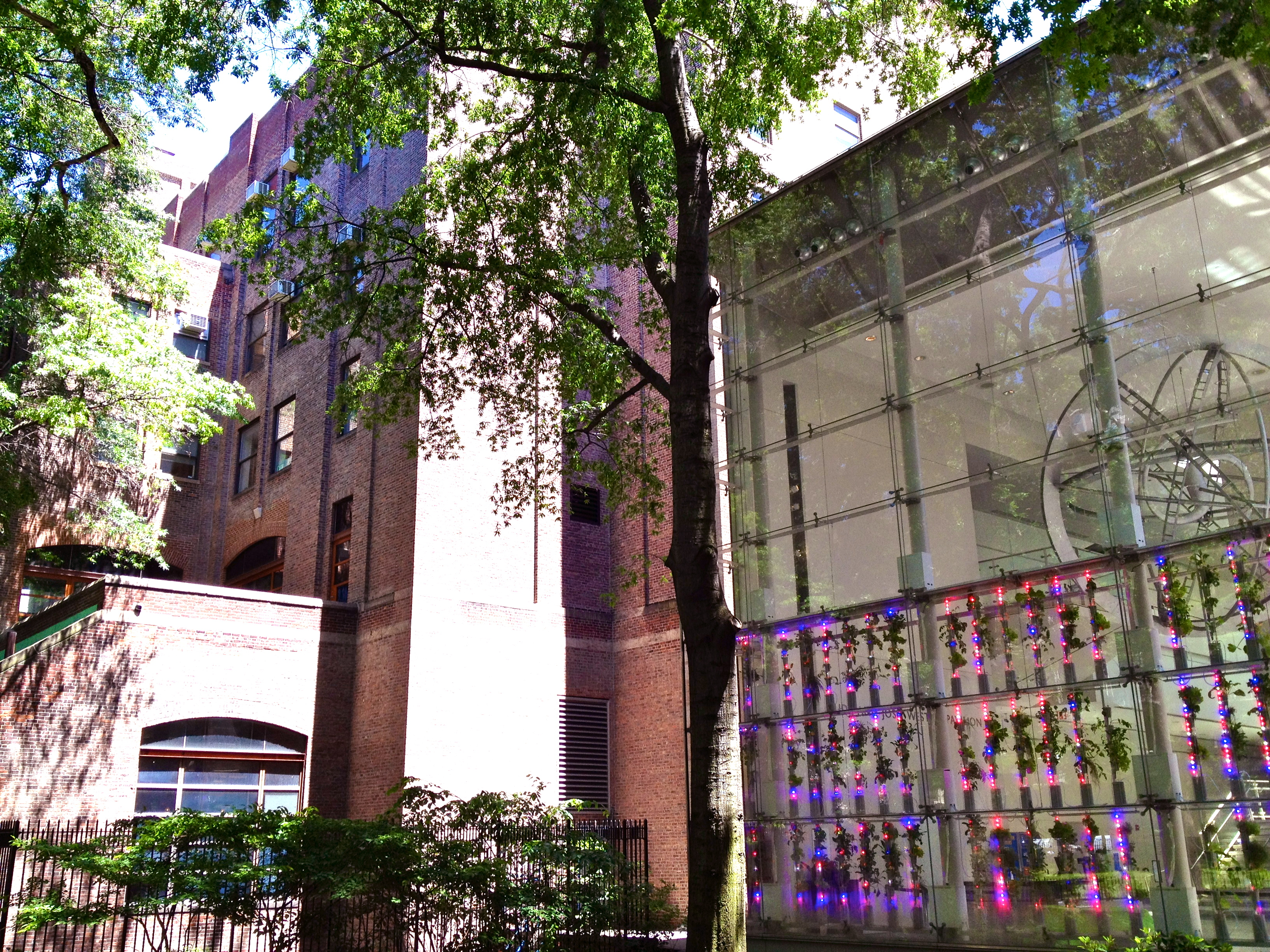 A view of the AMNH Exhibitions Department building.